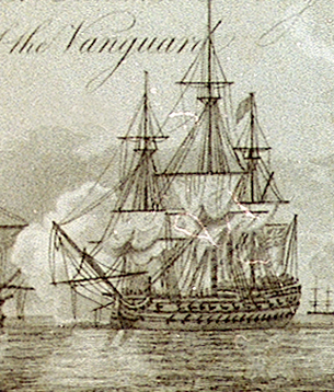 Captain Sir Edward Berry of the Vanguard. Technique includes etching. See PAD3437, published in March 1799, which is also based on Grimaldi but lacks the Nile medal (Berry having been Nelson's flag-captain there in 'Vanguard') and shows the sitter in the captain's undress uniform with a single (right) epaulette as appropriate to a captain of under three years' seniority. Grimaldi exhibited a miniature of Berry at the Royal Acdemy in 1799, but his own list of his works does not suggest he did more than one version at this time - and we do not know in which uniform - though he did another one of Berry in 1828. It is possible from the inscription, which states the 'portrait' as by Grimaldi and the rest by Roberts that the latter also includes the uniform and medal. See also MNT0126. [PvdM 12/10]